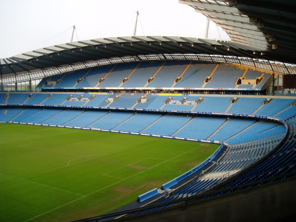 The City of Manchester Stadium, 3 km from Droylsden, Tameside, Great Britain. The stadium was built for the 2002 Commonwealth Games. It was subsequently converted for use for football and is now the home of Manchester City FC.